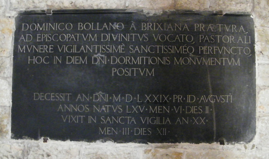 Domenico Bollani. Grave in Duomo Vecchio, Brescia.